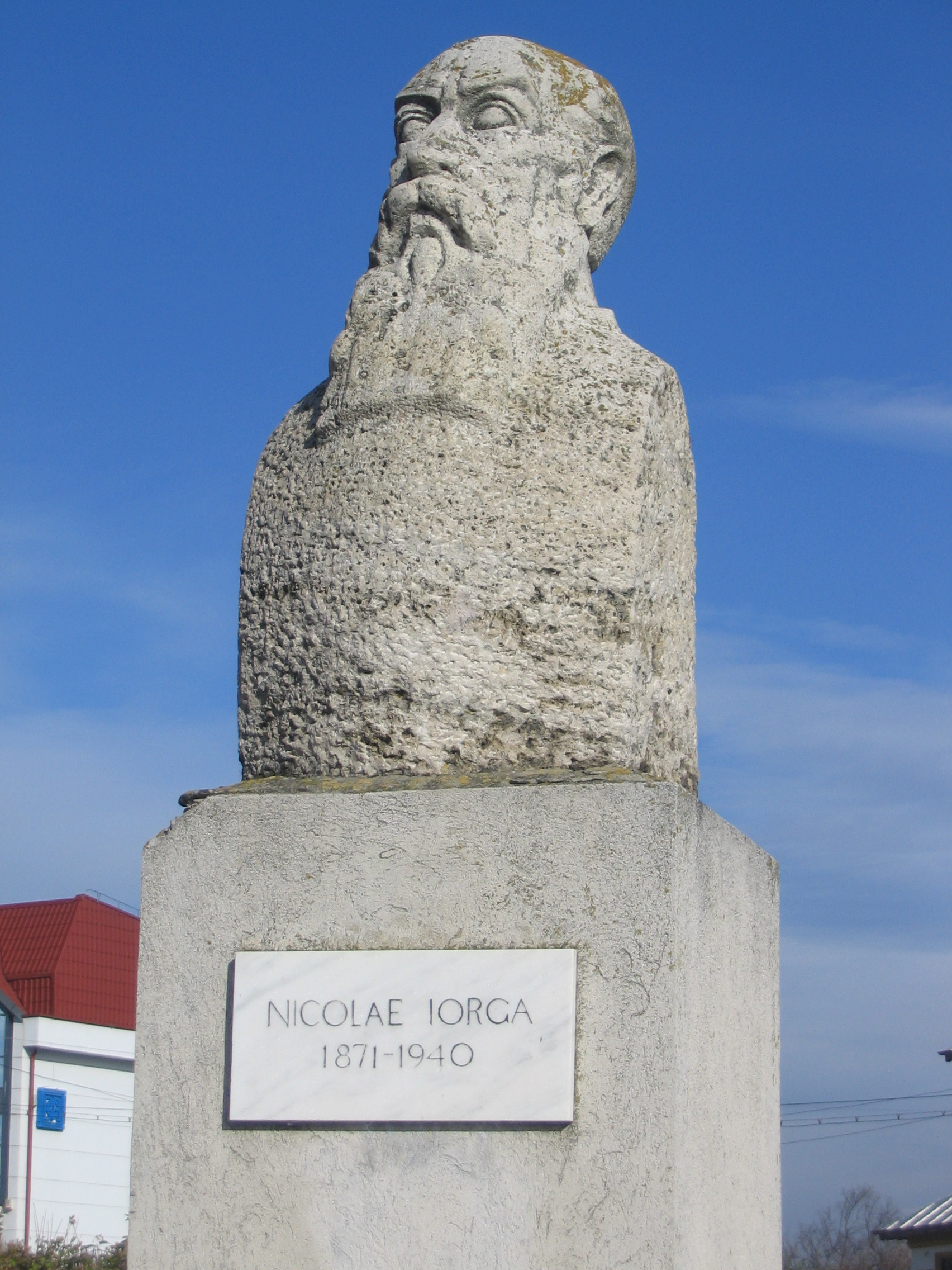 Statue of Nicolae Iorga, in Vălenii de Munte, Romania